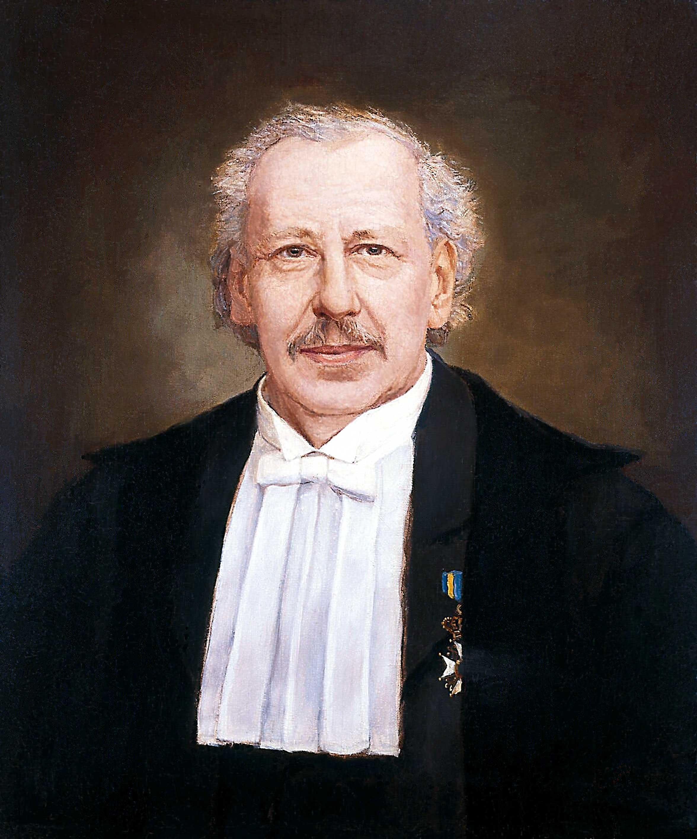 Tjalling Halbertsma (1841-1898) Dutch gynecologist and obstetrician